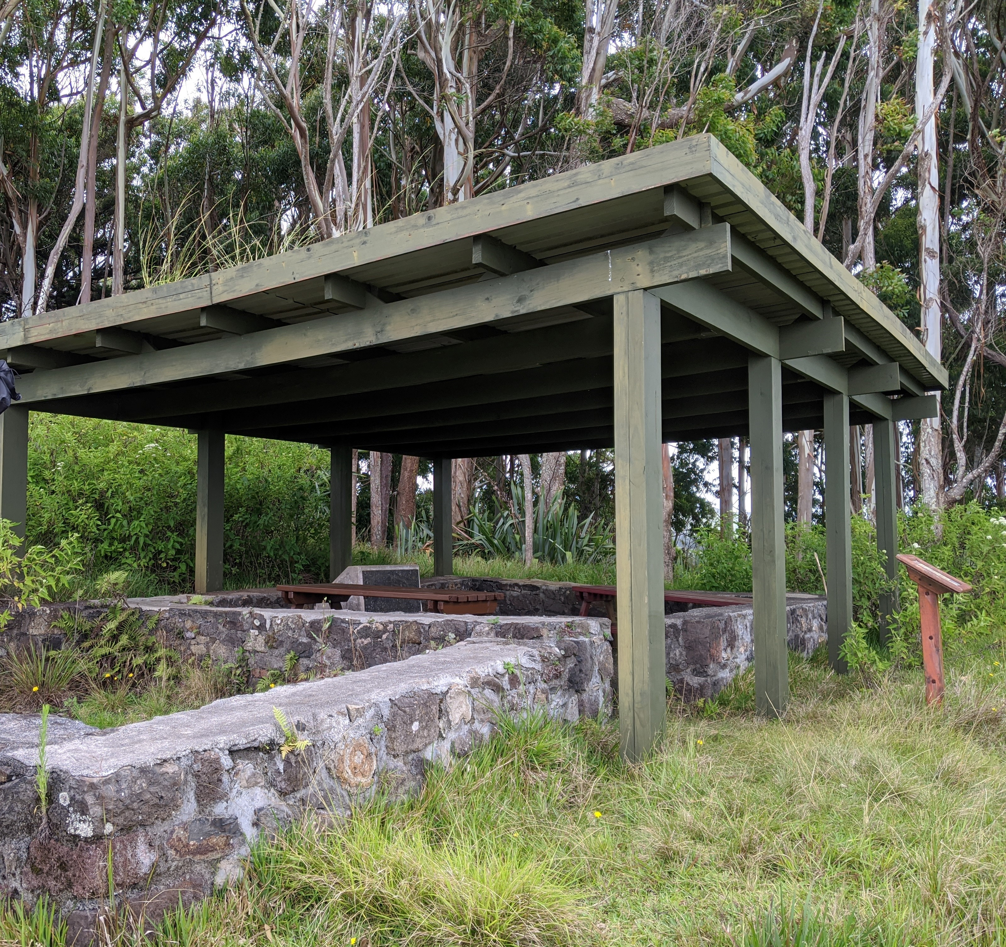 a green wooden shelter constructed over stone foundations